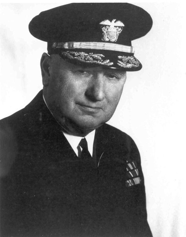 Admiral Edward Clifford Kalbfus (1877-1954) was an admiral of the US Navy and President of the Naval War College for two periods. In 1944 he was a member of the 'Navy Court of Inquiry' for the attack on Pearl Harbor on December 7th, 1941.